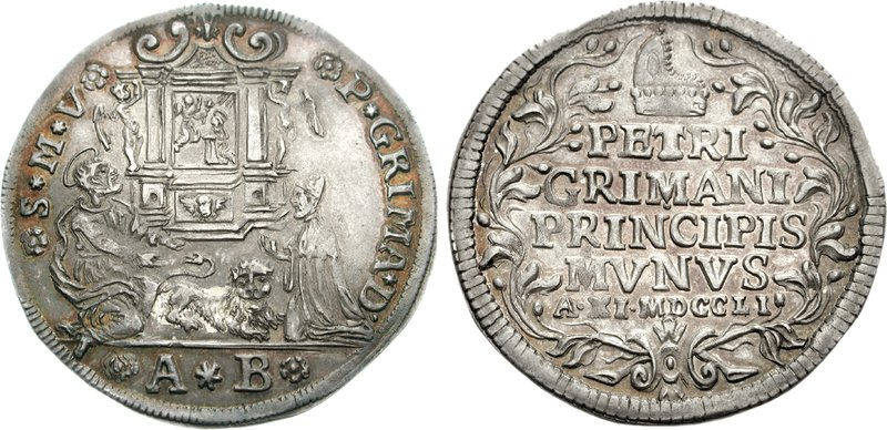 Italy, Venice. Pietro Grimani. 1741-1752. AR Osella (9.82 g, 9h). Alvise Barbaro, mintmaster. Dated 1751. (rosette) S • M • V (rosette) (rosette) P • GRIMA • D, St. Mark, lion, and doge kneeling before a scene of the Annunciation PETRI / GRIMANI / PRINCIPIS / MVNVS / A • XI • MDCCLI in five lines. CNI VIII 110; Paolucci II 234. EF, toned.